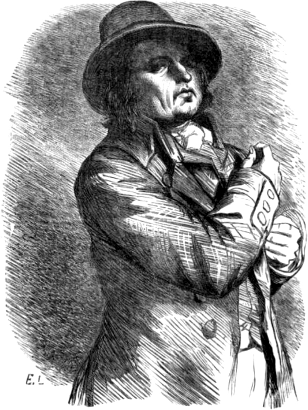 Charles-Henri Sanson - “He remained pensive, standing in an attitude of hesitation, dimly lit by a lamp whose feeble glimmer scarcely penetrated the fog.”